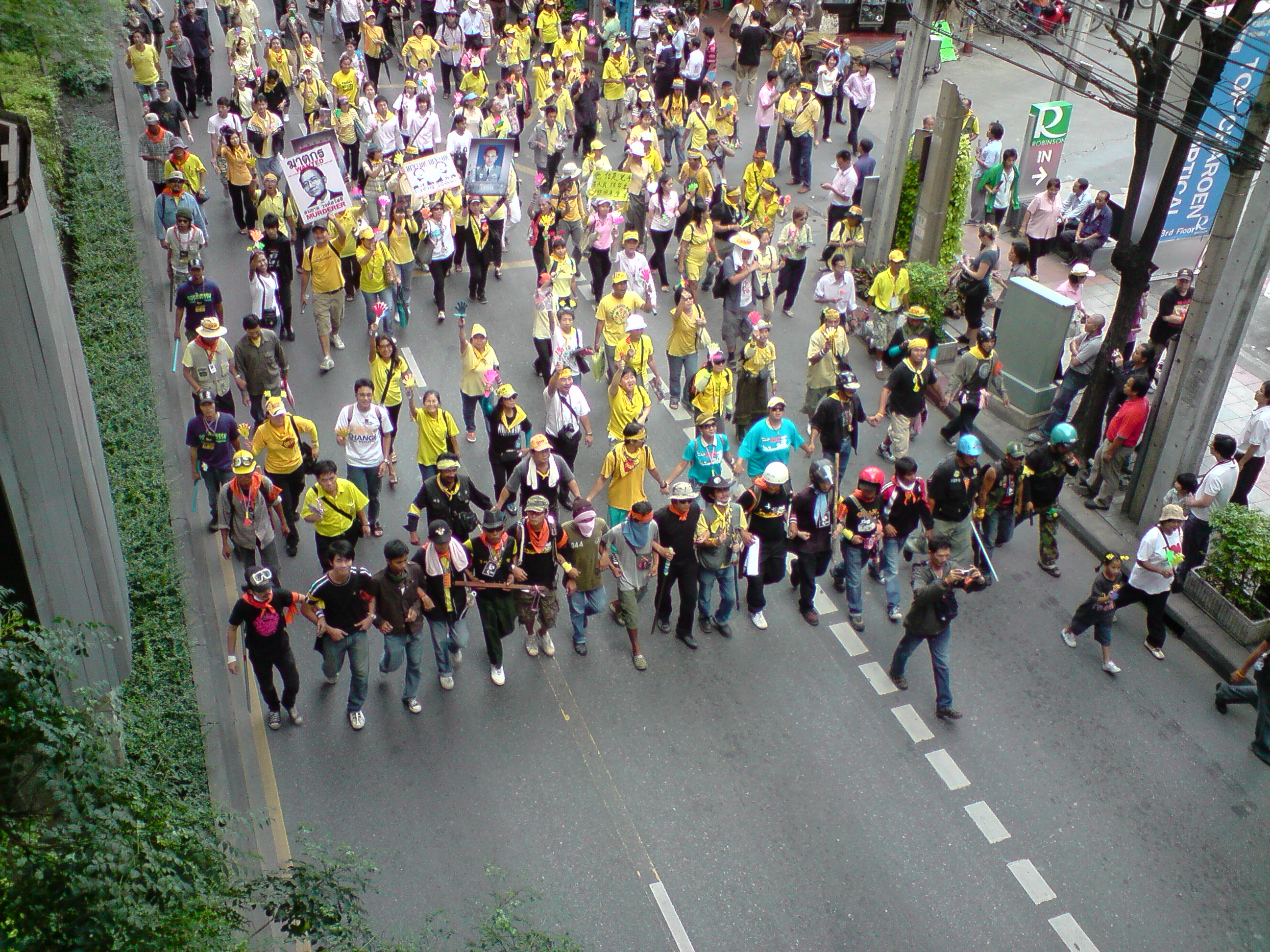 People's Alliance for Democracy (PAD) rally on Sukhumvit road on August 30, 2008, after marching to the British Embassy on Ploenchit road in the morning.